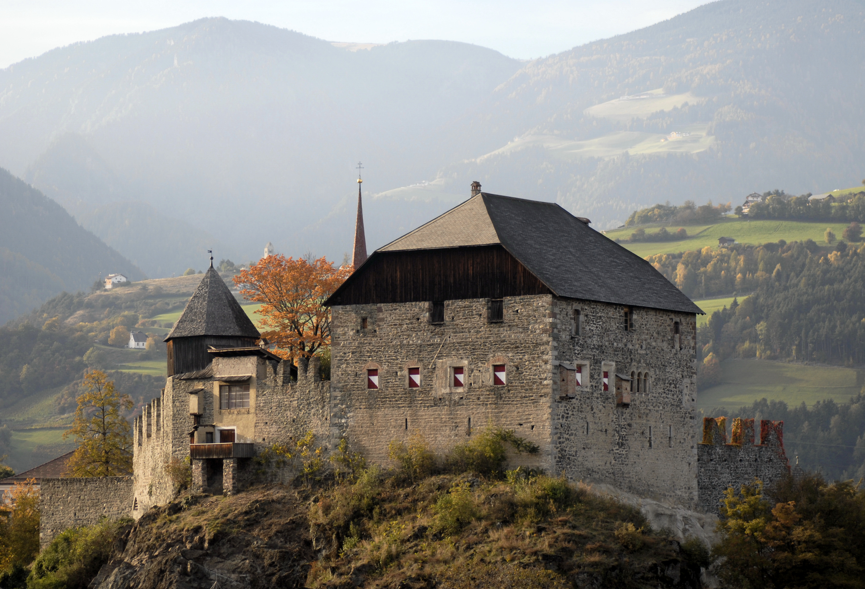 Summersberg-Castle in Gufidaun, South Tyrol